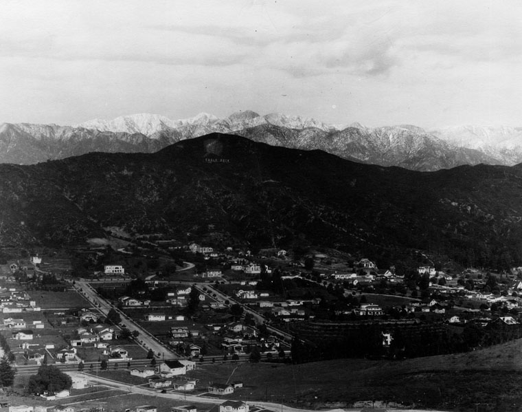 Panoramic view of Eagle Rock, looking north towards the snow-capped San Gabriel Mountains. An "Eagle Rock" sign is visible on the San Rafael hills, the first (dark) mountain range. Colorado Blvd. is the major east-west thoroughfare visible at the bottom of the photo. Angelo Bessolo's mansion can be seen on the lower right. It is the Mediterranean style residence atop the small hill with a very large multi-tiered terrace and numerous lemon trees. Several streets in Eagle Rock are lined with historic and architecturally significant homes done in the Colonial revival, English Tudor, Craftsman, Georgian, Streamline Moderne, Art Deco and Spanish/Mission style.